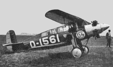 Darmstadt D-18 (D-1561), Berlin Tempelhof, 20 July 1930